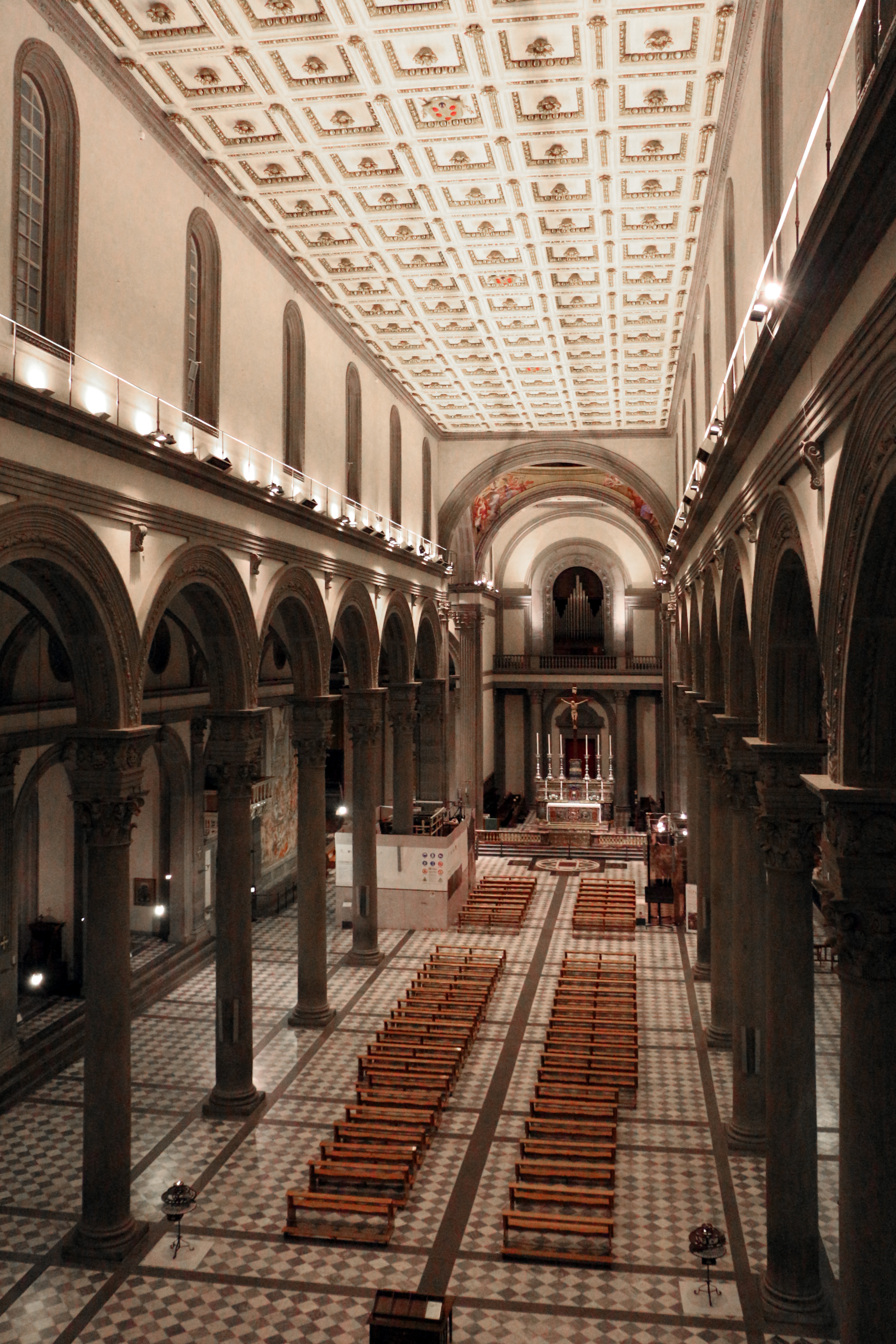 Interior of the Basilica of San Lorenzo (Florence)